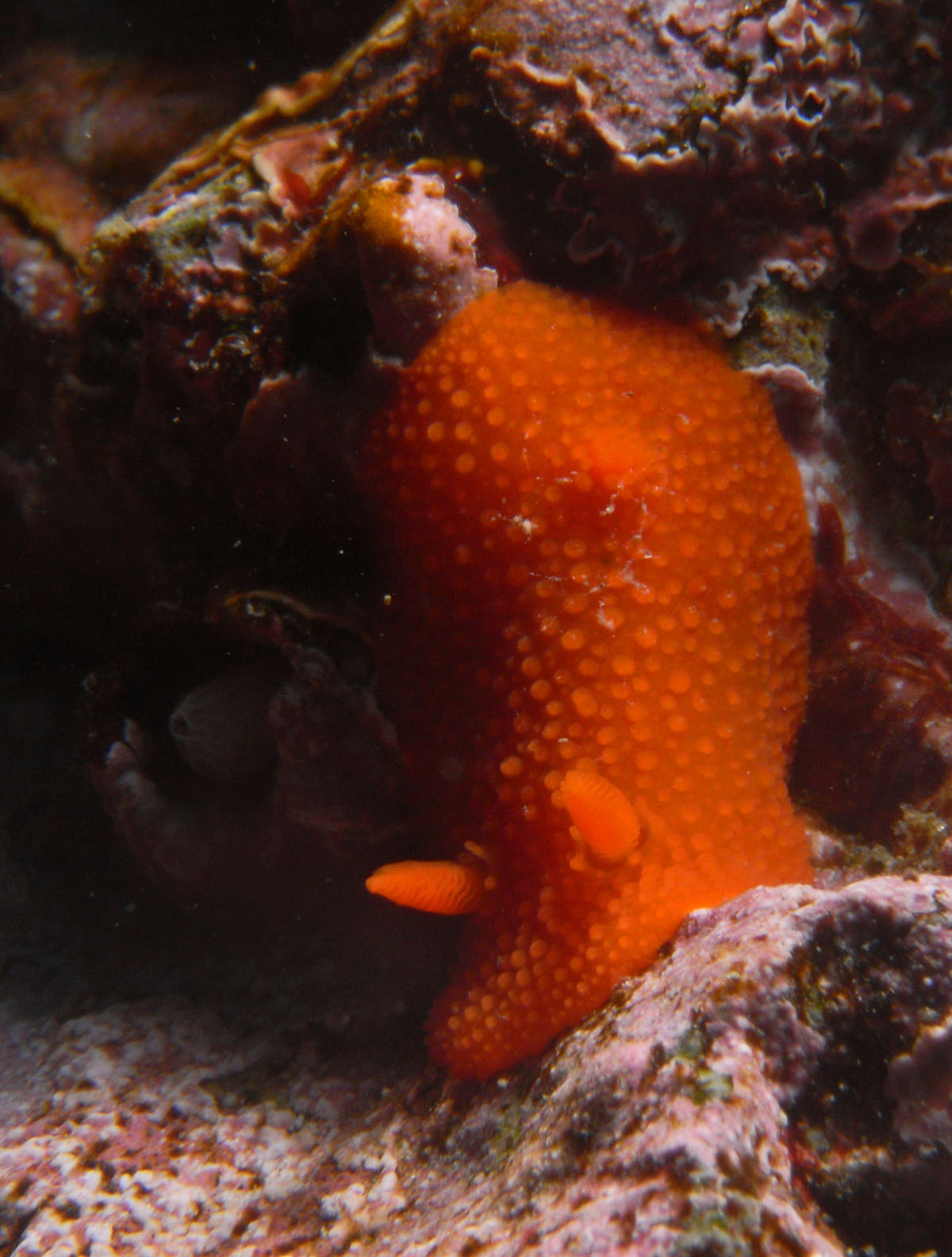 Aldisa cooperi